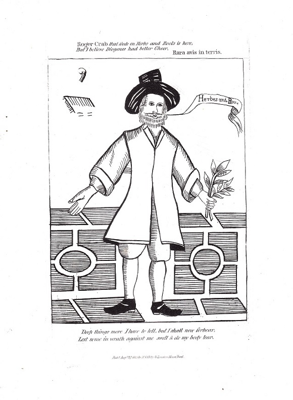 Roger Crab (1621 – 11 September 1680), an English soldier, haberdasher, writer, hermit, herbal doctor and ascetic.